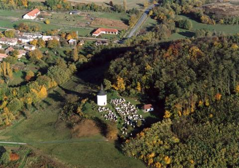 Kallósd, Hungary, aerialphotography